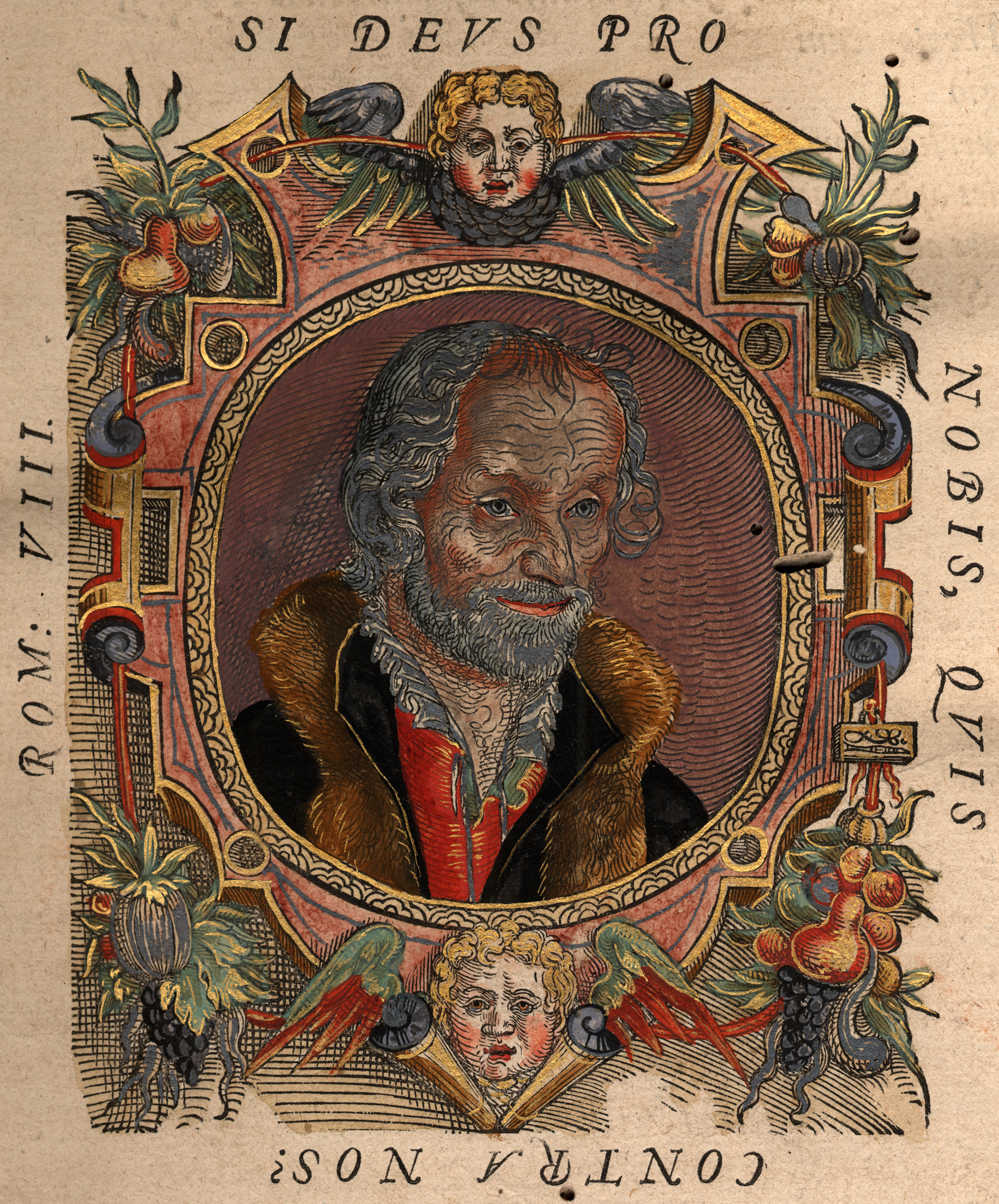 Portrait of Philipp Melanchthon (1497-1560), noted Lutheran theologian and recipient of the title, "Praeceptor Germaniae" (Teacher of Germany) by Lucas Cranach, the Younger, hand-colored.